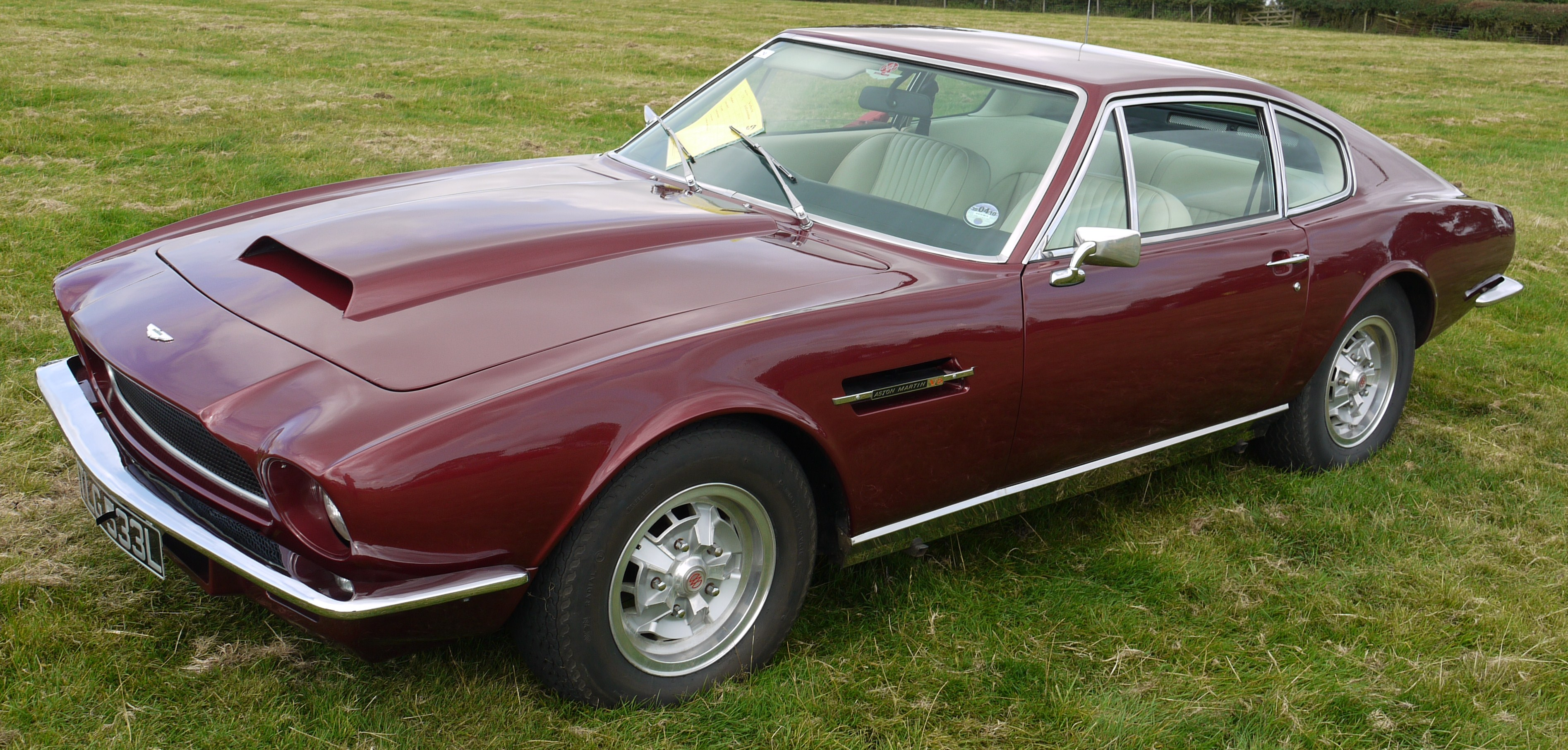 1972 Aston Martin AM V8 (series 2) - however, it has been fitted with a Series 3 bonnet with a bigger, longer scoop and vent.